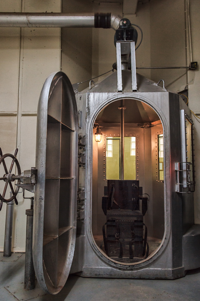 The gas chamber used at the "Old Main," the retired Southern portion of the Penitentiary of New Mexico.